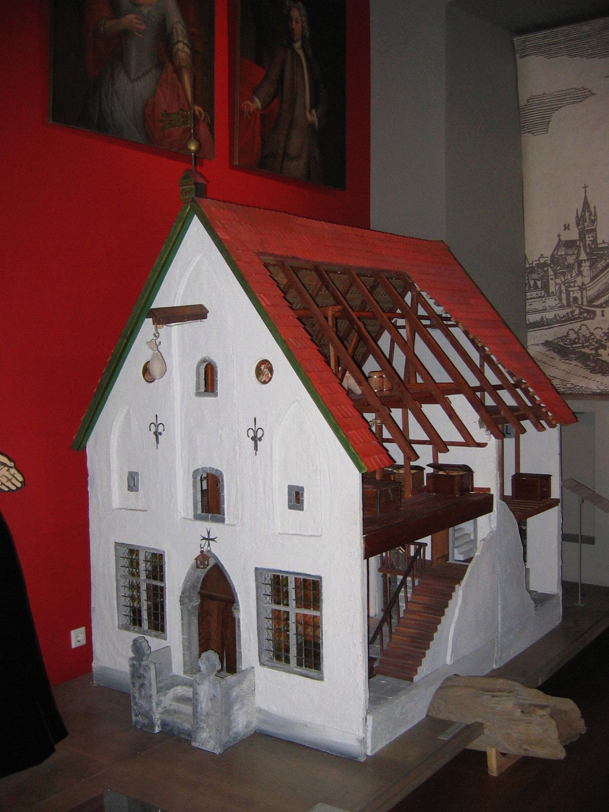 a model of a Tallinn merchant's house, as seen in the Tallinn City Museum